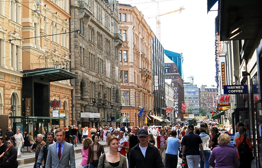 Aleksanterinkatu Helsinki summer (cropped)